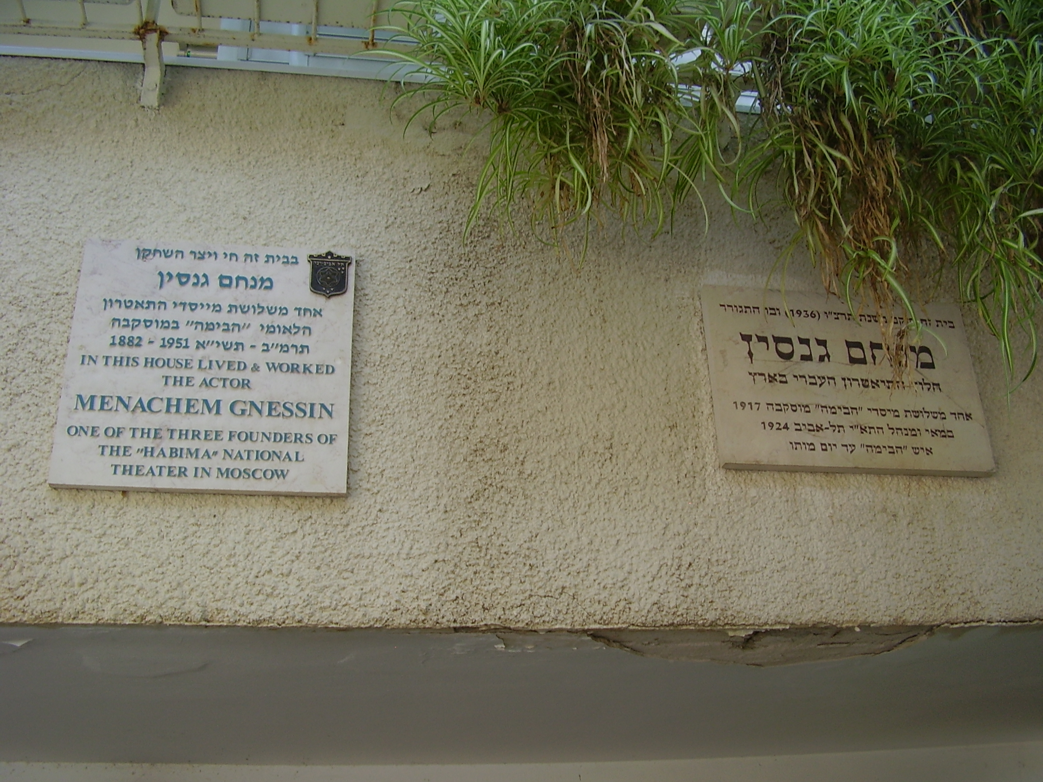 memorial plaques on the actor menachem gnessin in tel aviv לוחיות זיכרון על ביתו של השחקן מנחם גנסין ברח' דב הוז 28 בתל אביב